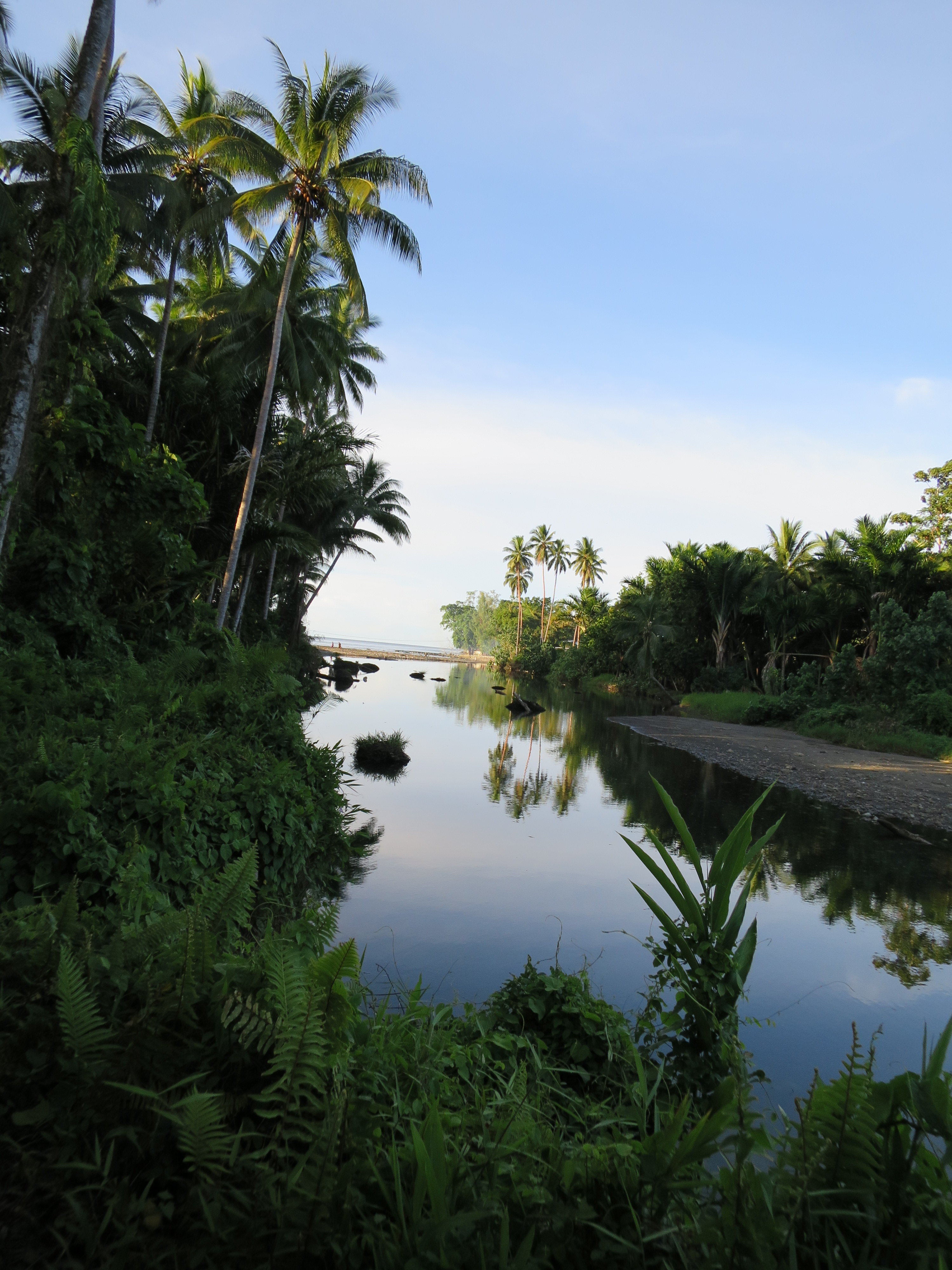 This photograph was taken one evening following the river on the track to the local beach in Kirakira.